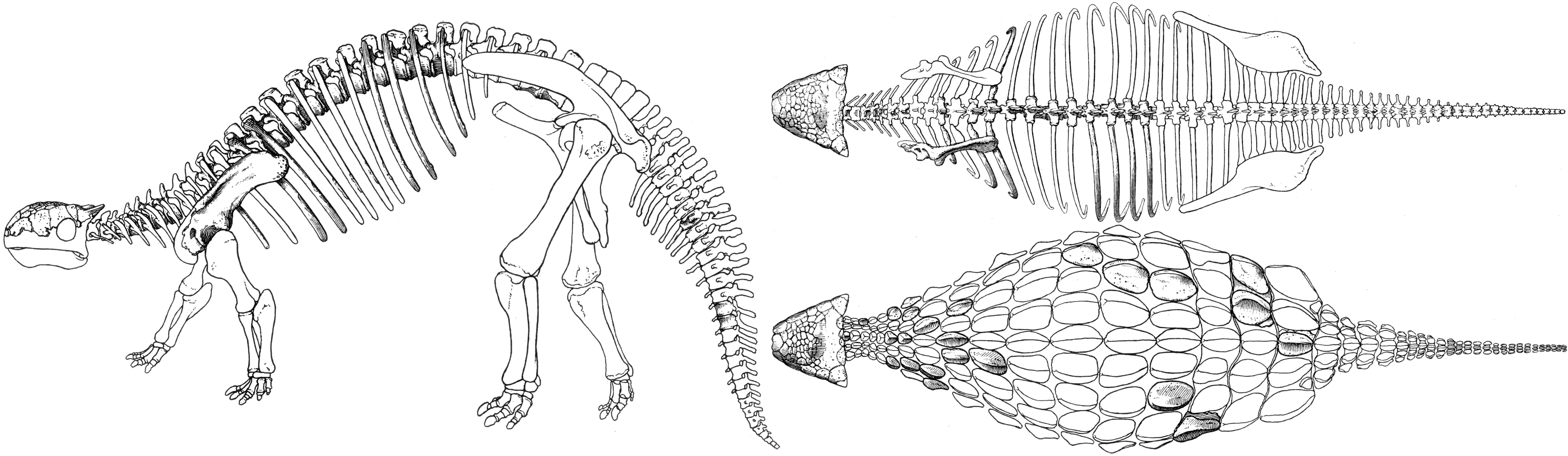 Restoration of the skeleton of Ankylosaurus AMNH 5895